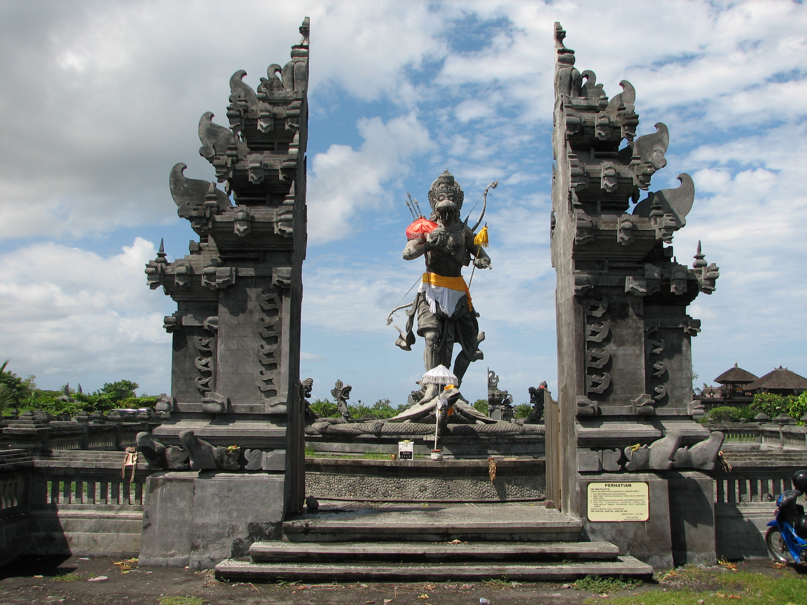 statue (Bali, Indonesia)